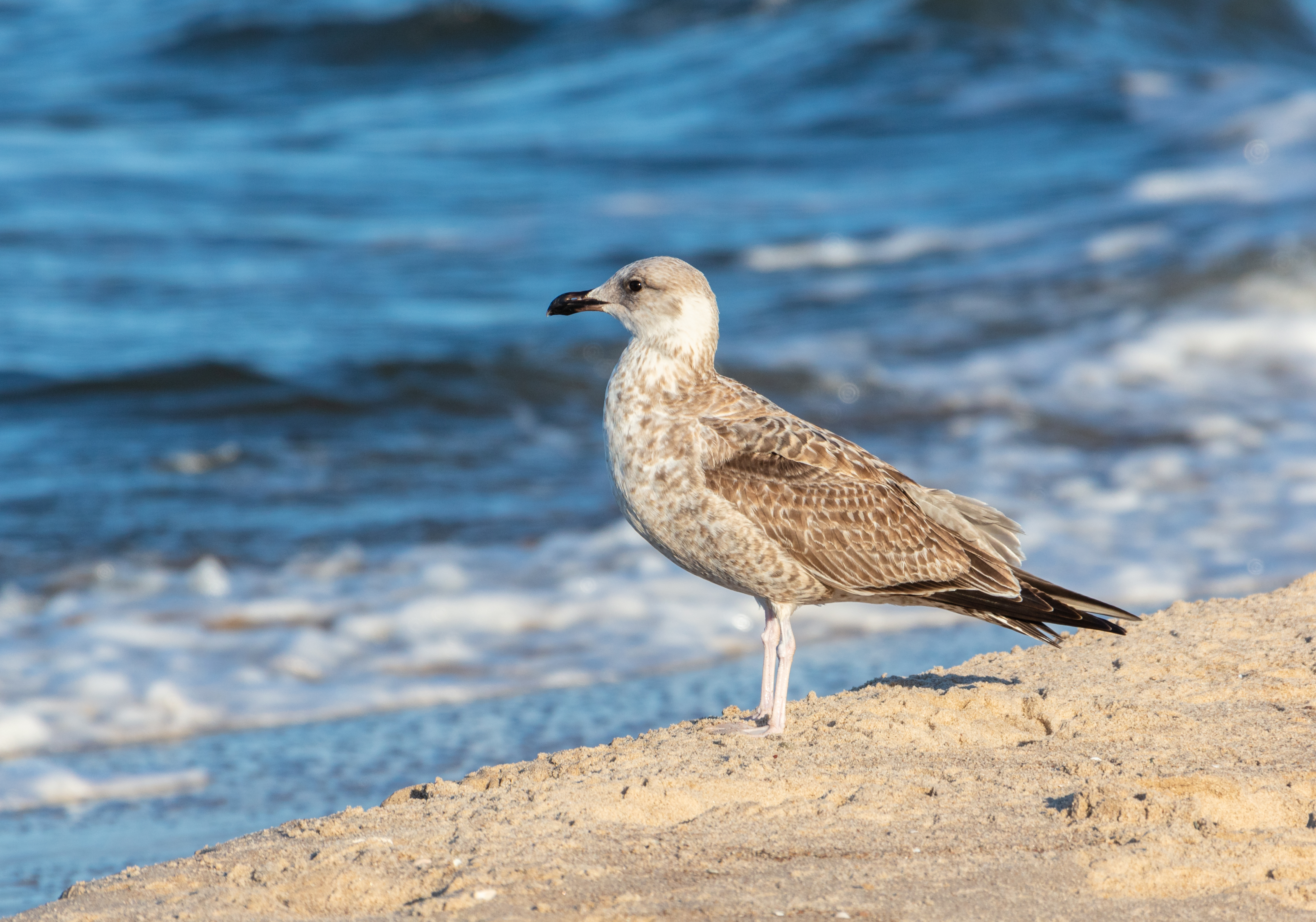 Yellow-legged gull​ (Larus michahellis), Trzęsacz, Poland